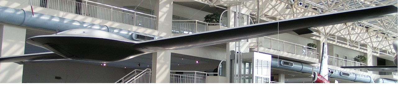 RQ-3A Darkstar. Displayed in Museum of Flight in Seattle, Washington. Photo taken by Wikipedia User JimCollaborator on 5 March 2005.